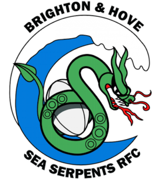 Logo of Brighton & Hove Sea Serpents RFC